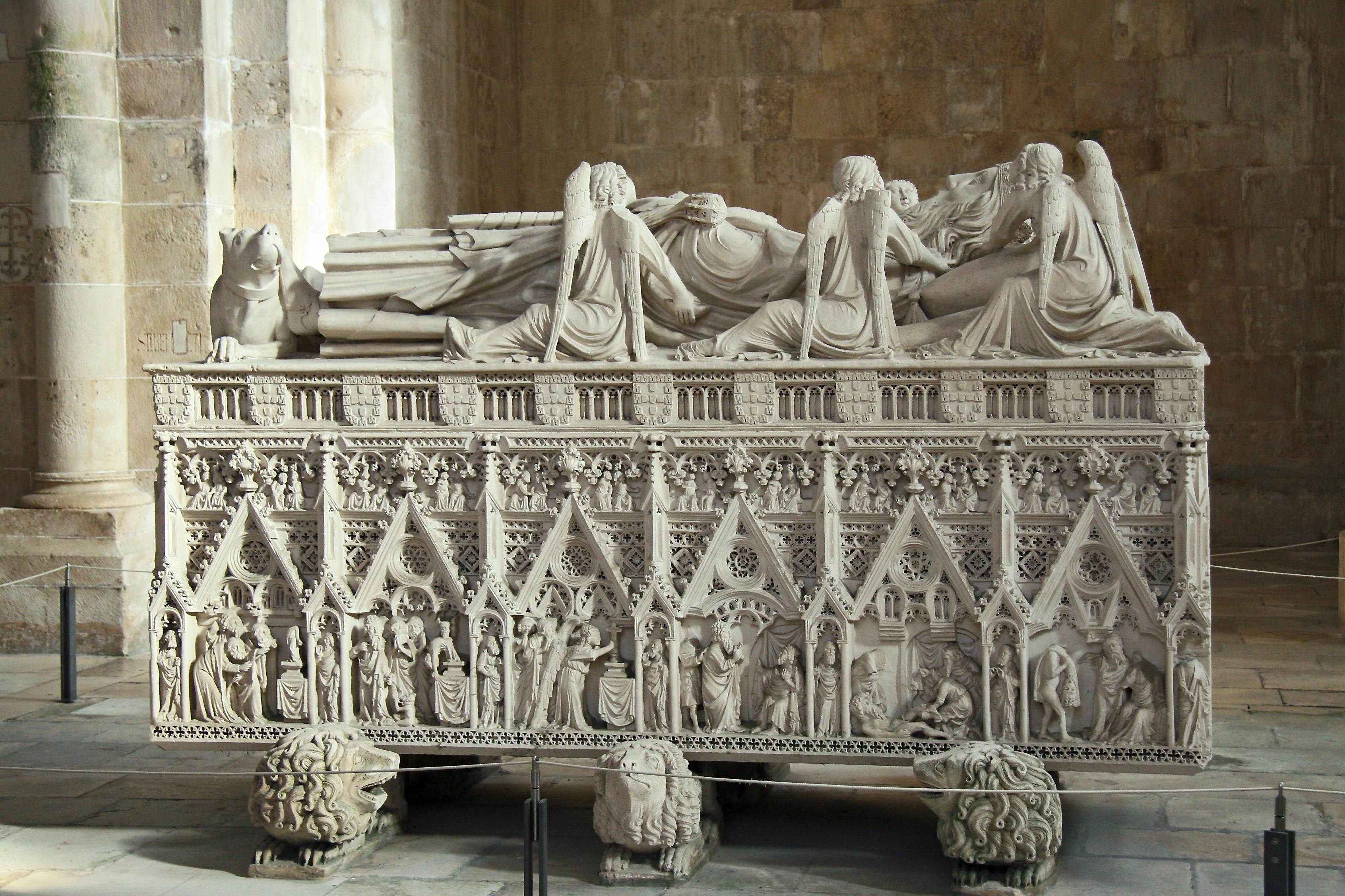 Tomb of King Pedro I in the church of the Alcobaça Monastery, Portugal